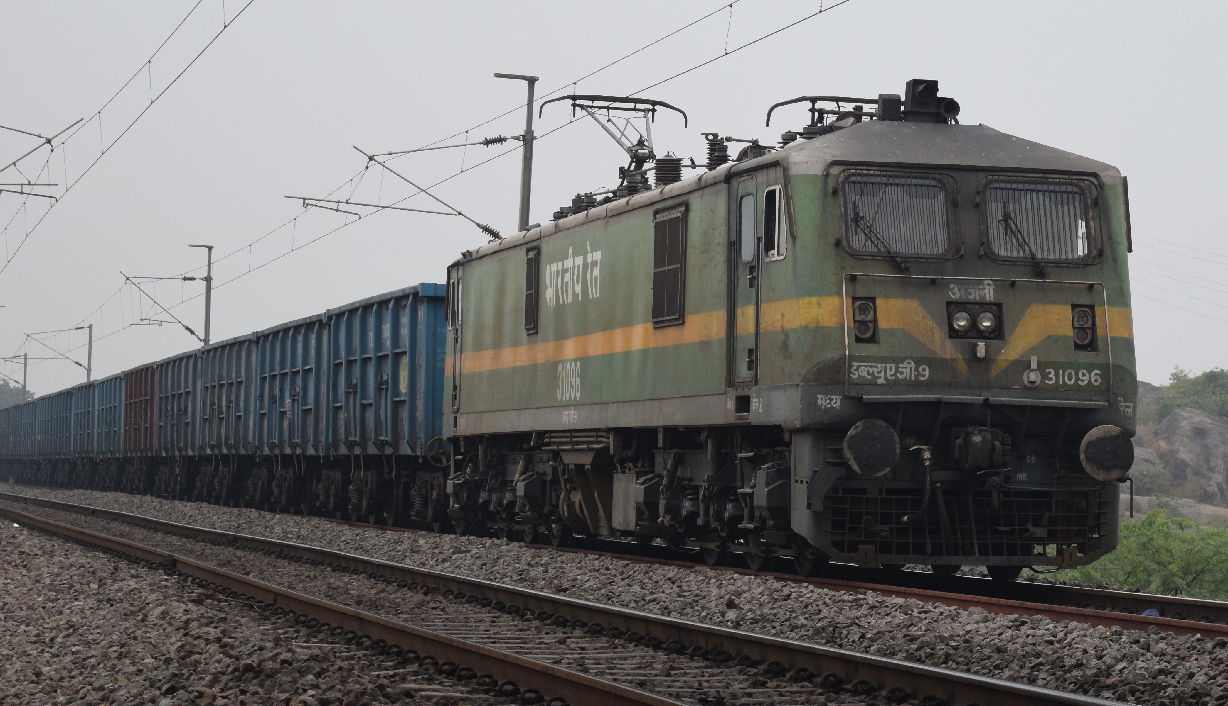 An Ajni-based WAG9 hauling freight near Warangal